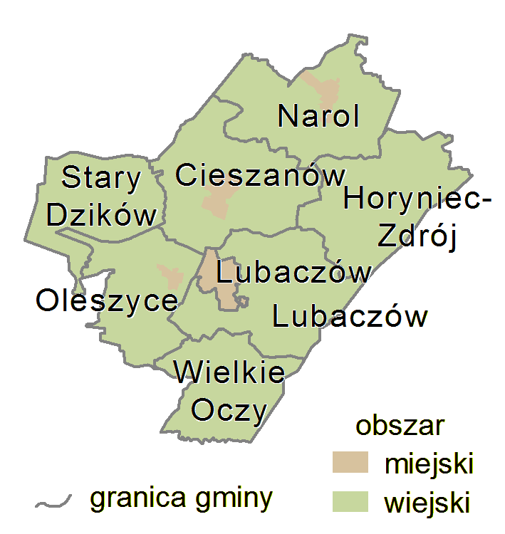 Subcarpathian Voivodeship - lubaczowski county gminas